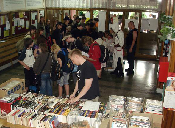 The "Porytkon 2" fantasy, manga and anime convention. Sosnowiec, Poland, 2008